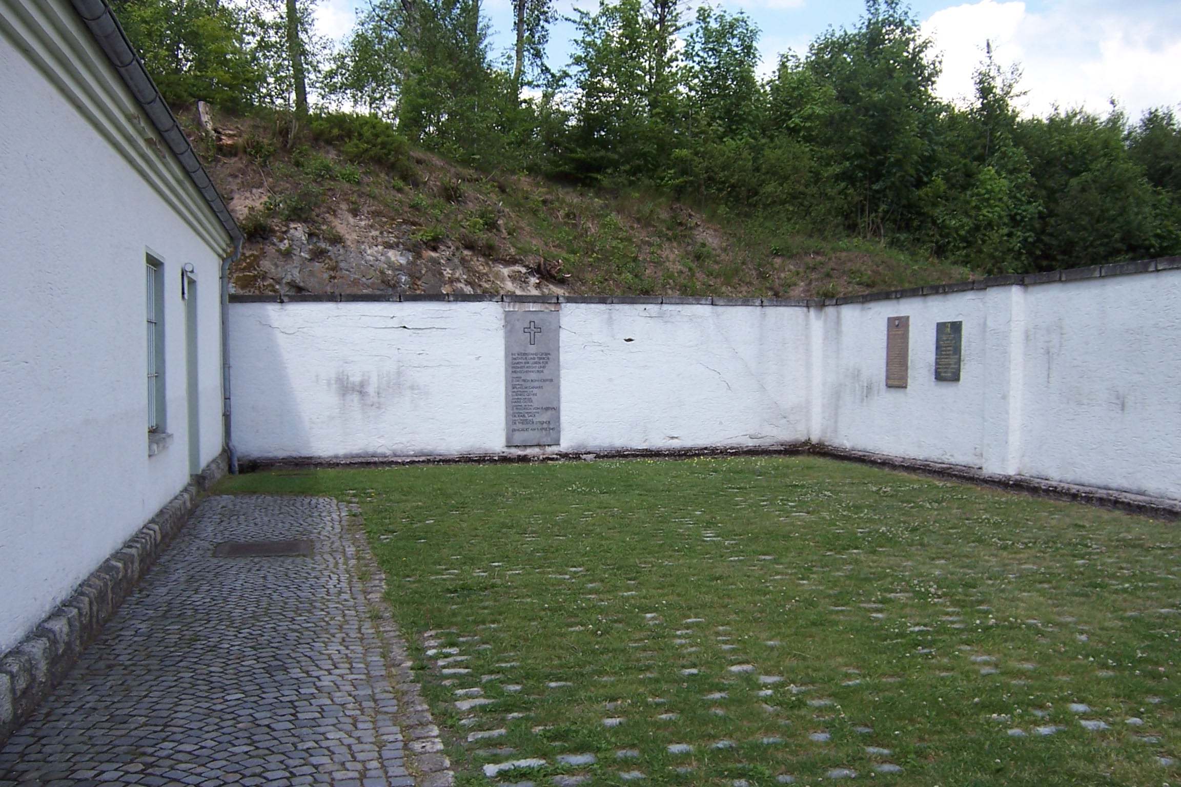 Flossenbürg concentration camp: courtyard of Arrestblock (jail block), site of numerous executions in 1944/45